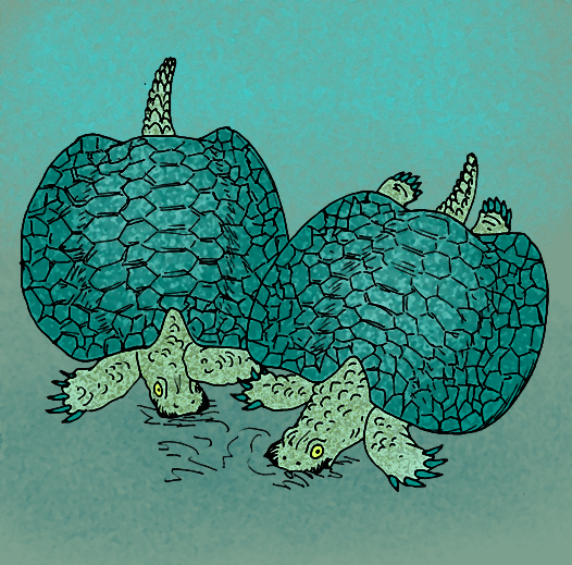 My reconstruction of the Late Triassic placodont, Henodus chelyops (c) Stanton F. Fink